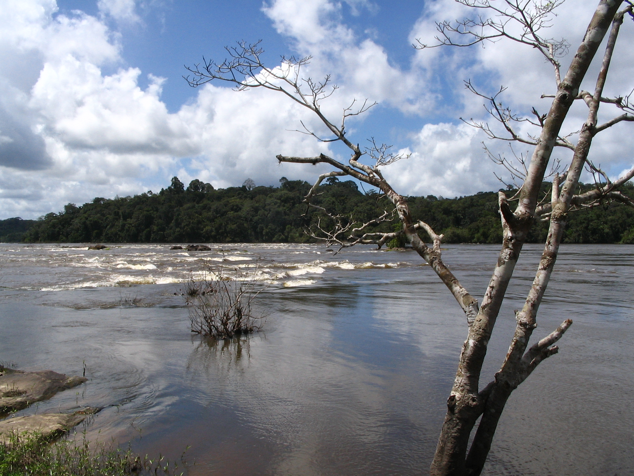 The Maripa Falls on the Oyapock River as seen from the French Guiana side of the border. Brazil is on the other side. Photo taken on 5 June 2005. Le Saut Maripa sur le fleuve Oyapock vu depuis la rive guyanaise. Le Brésil se trouve sur l'autre rive. Photo prise le 5 juin 2005.